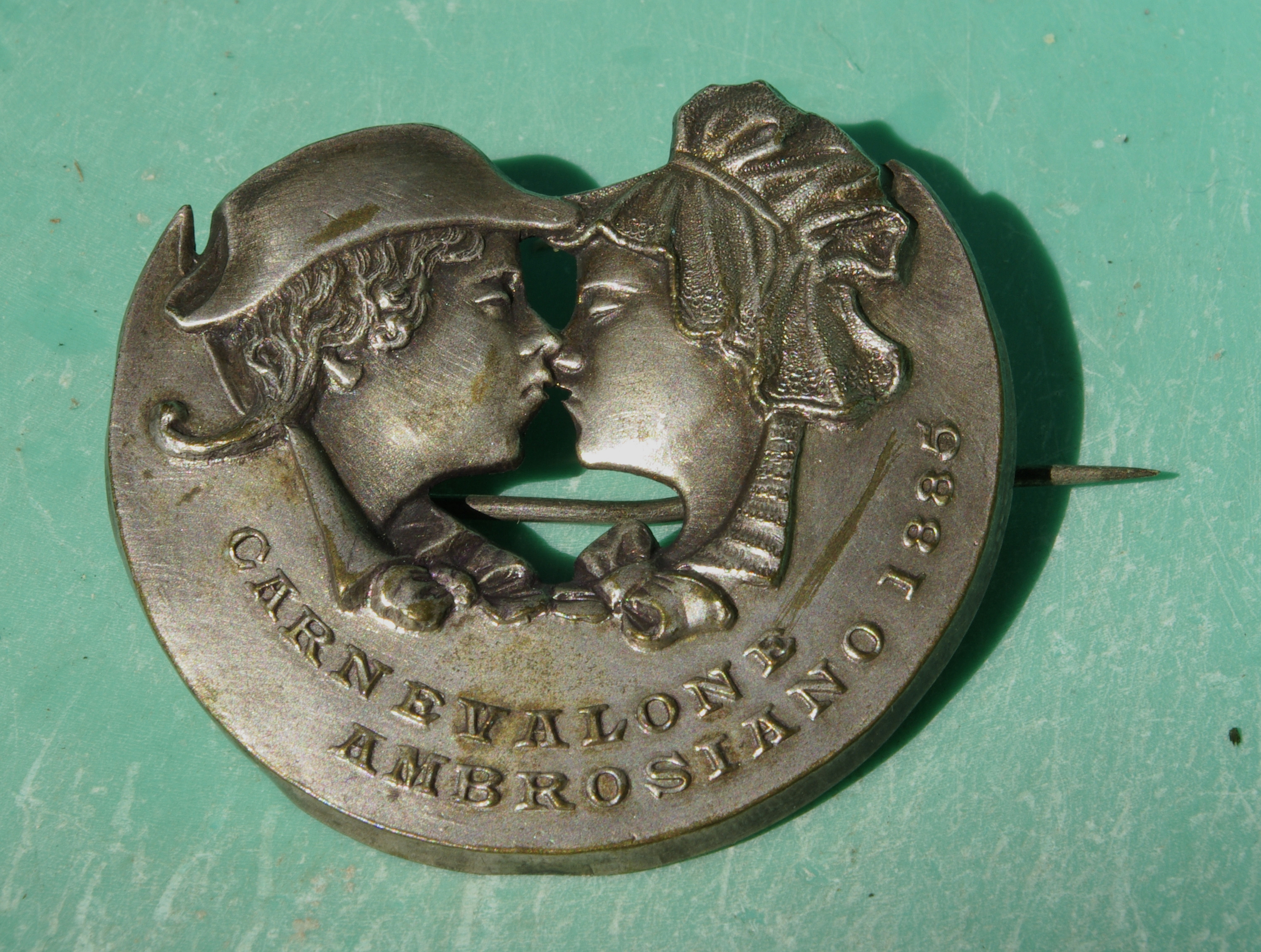 Sample of pins made for Carnevale Ambrosiano 1885 in Milan